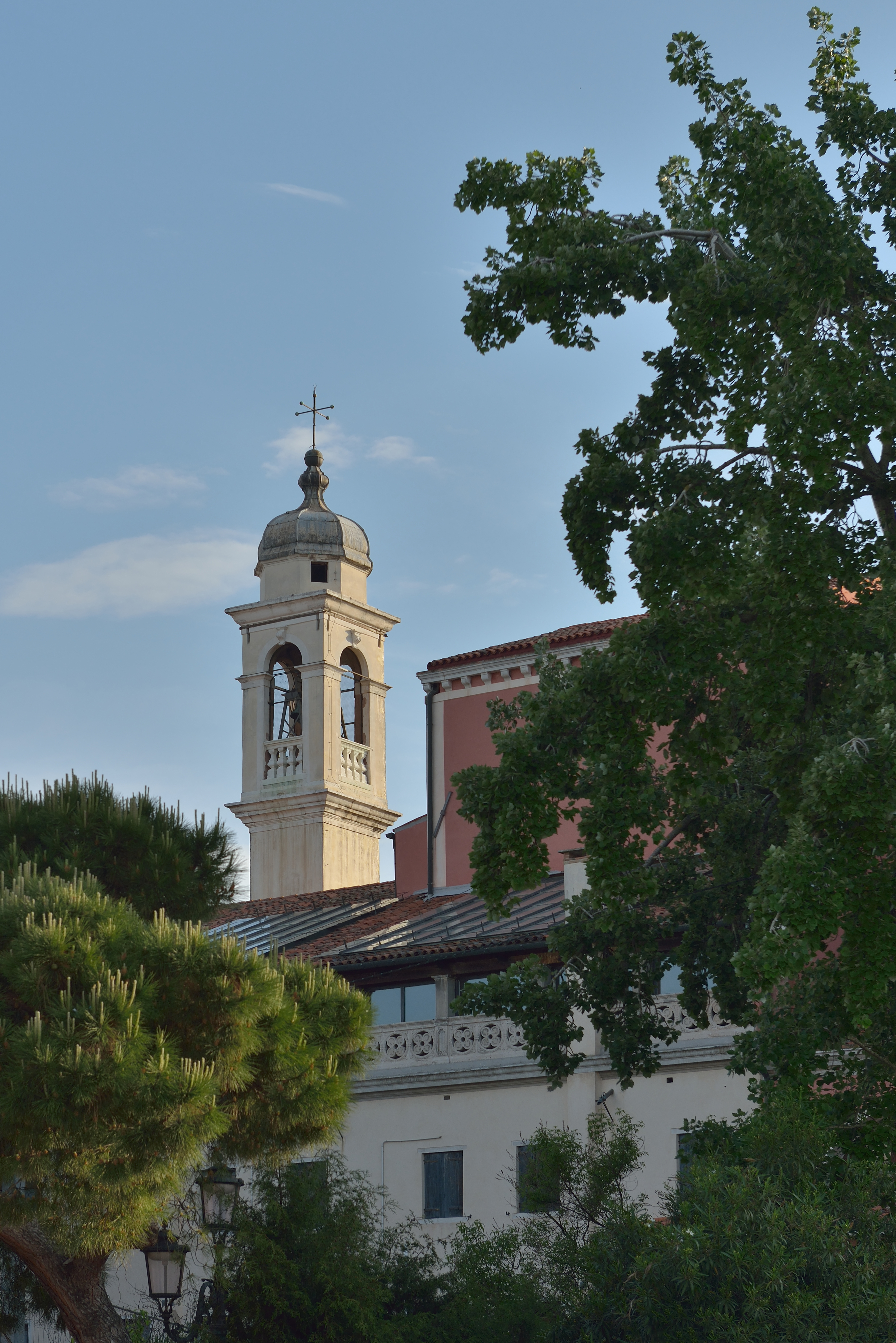 Belltower of the Santa Maria di Nazareth or Chiesa degli Scalzi church in Venice